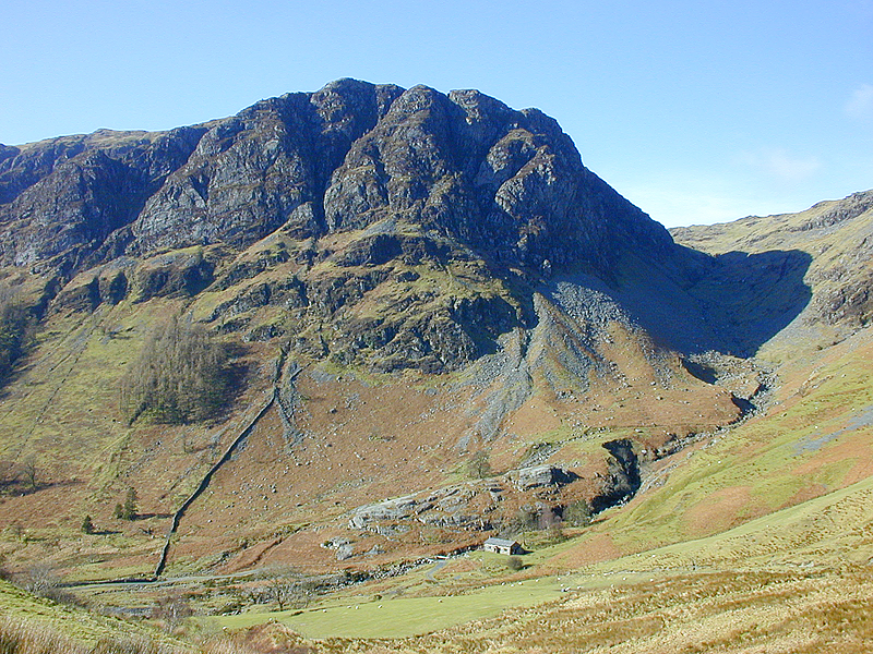 The head of Cwm Cywarch, 4 km from Aber-Cywarch, Gwynedd, Wales. The climbing hut of Bryn Hafod lies peacefully in the cwm, underneath the superb buttresses of Craig Cywarch.